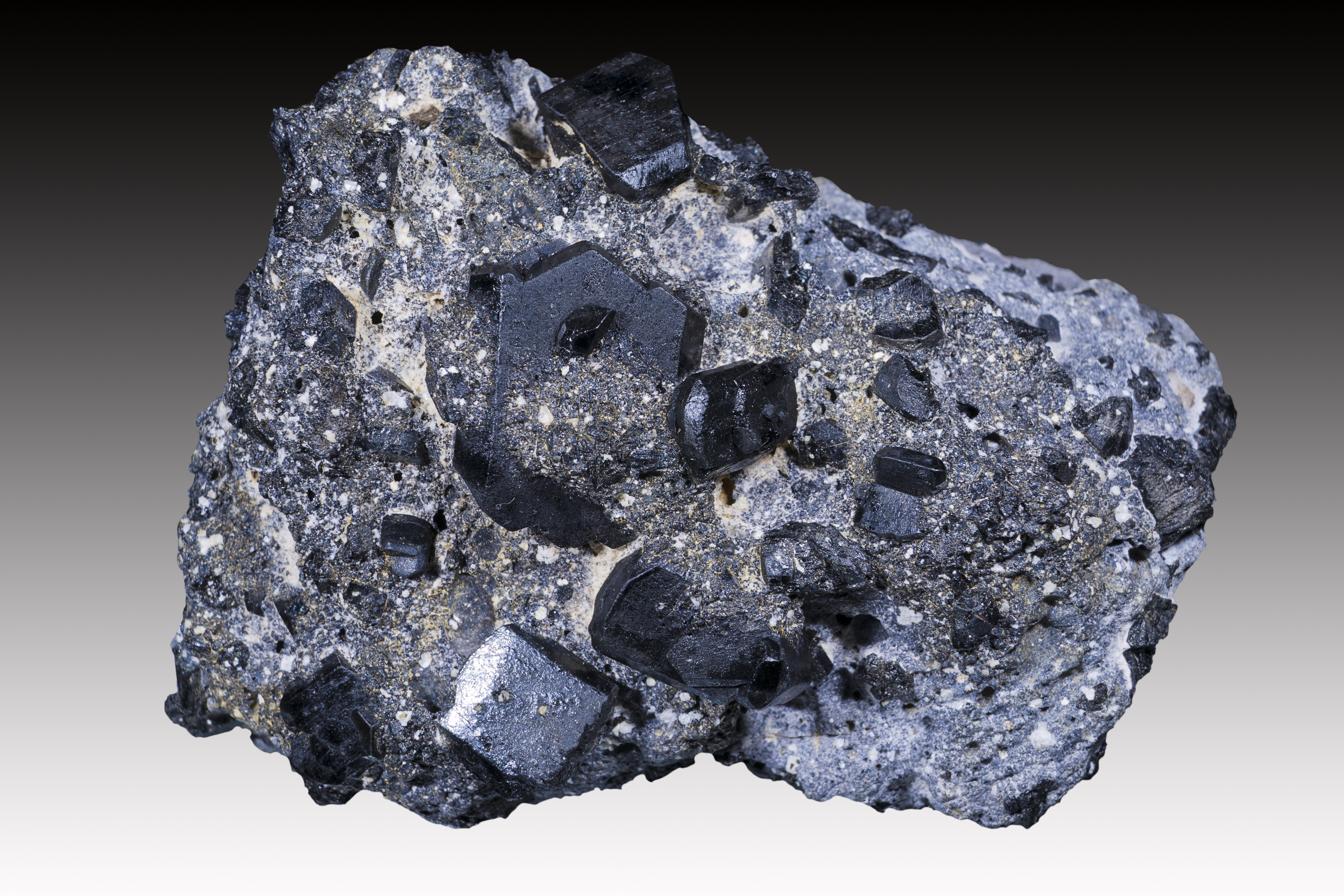 Augite Locality : Muhavura volcano, Ruhengeri Region, Northern Province, Rwanda, Rwanda Size : 9x7x5 cm